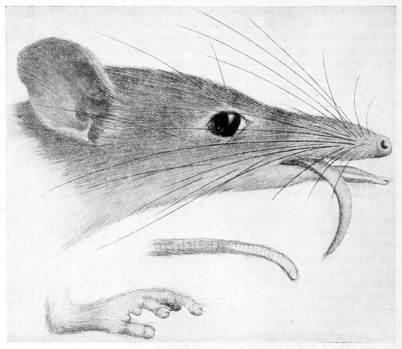 Illustration of Tarsipes rostratus